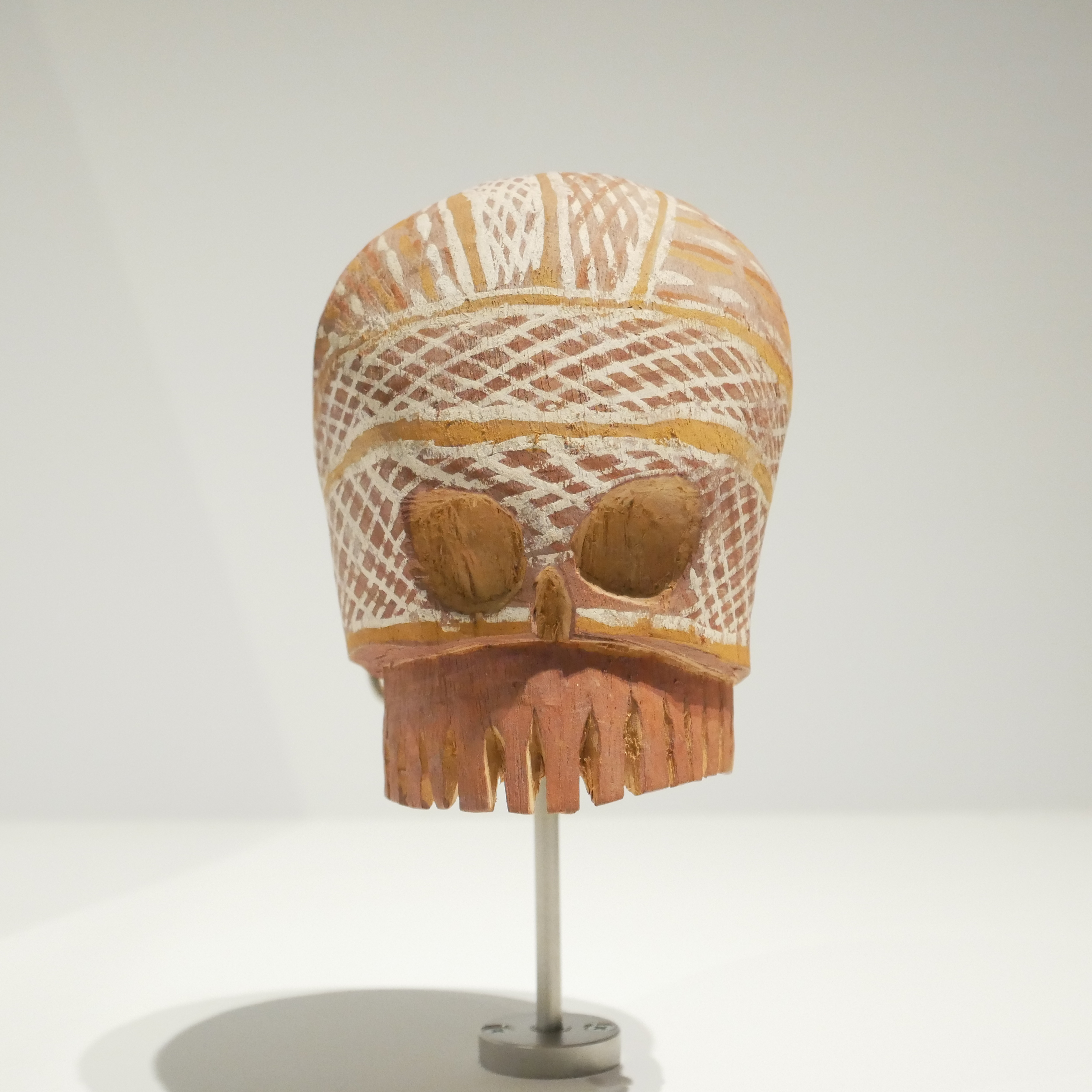 有氏族圖紋的木製頭顱（Wooden skull painted with clan designs）by Liegeran in 1974，臺北市中正區城內次分區黎明里